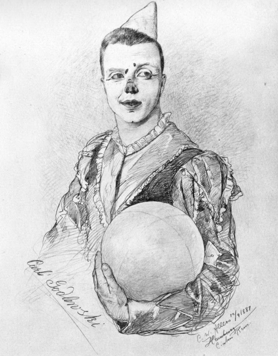 Portrait of Carl Godlewski, 1887